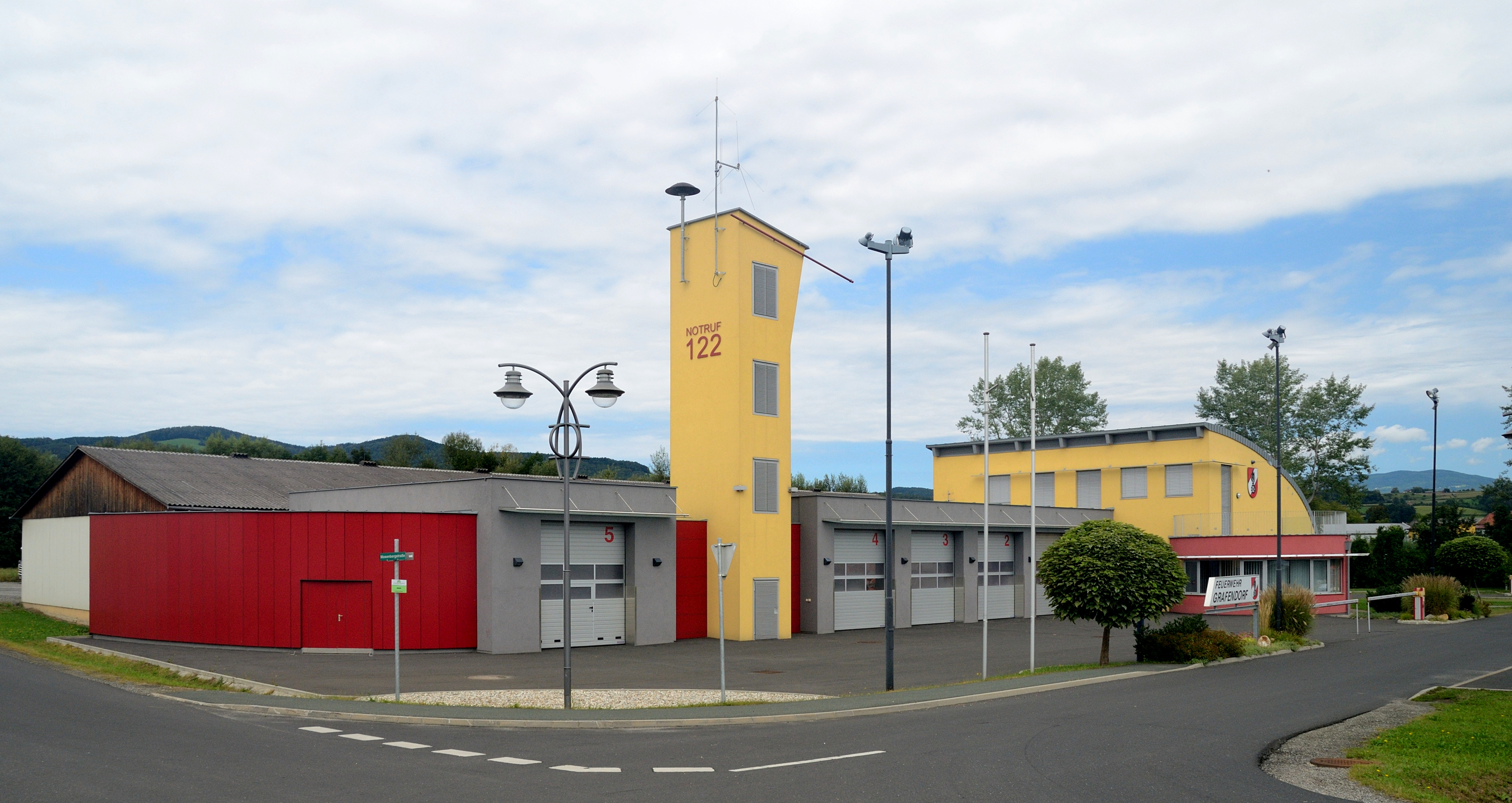 Fire station in Grafendorf bei Hartberg, Styria. Built in 2003/2004.